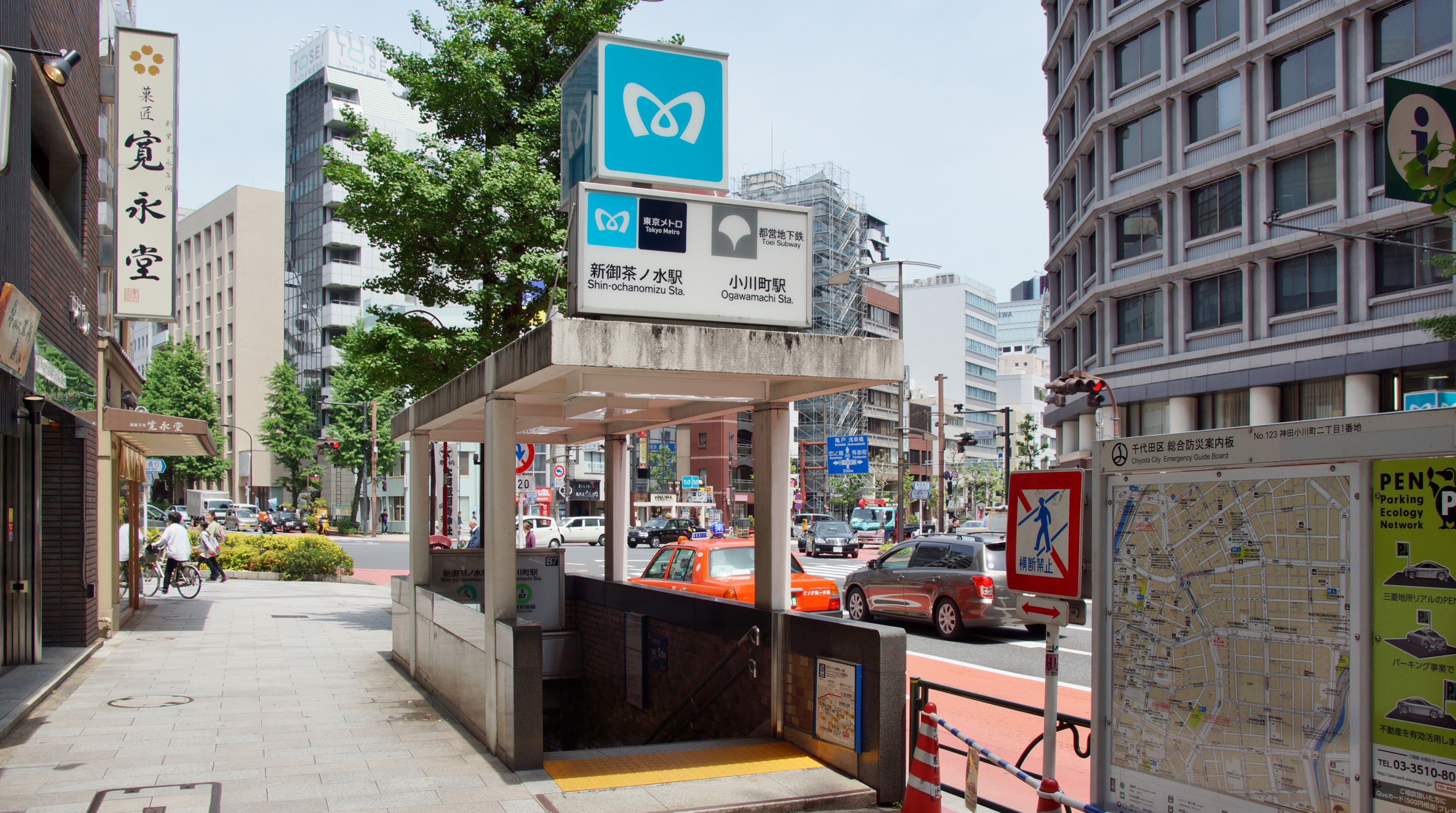 Entrance B7 to Ogawamachi and Shin-Ochanomizu subway stations in Tokyo